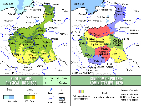 Kingdom of Poland 1815-1830: physical and administrative